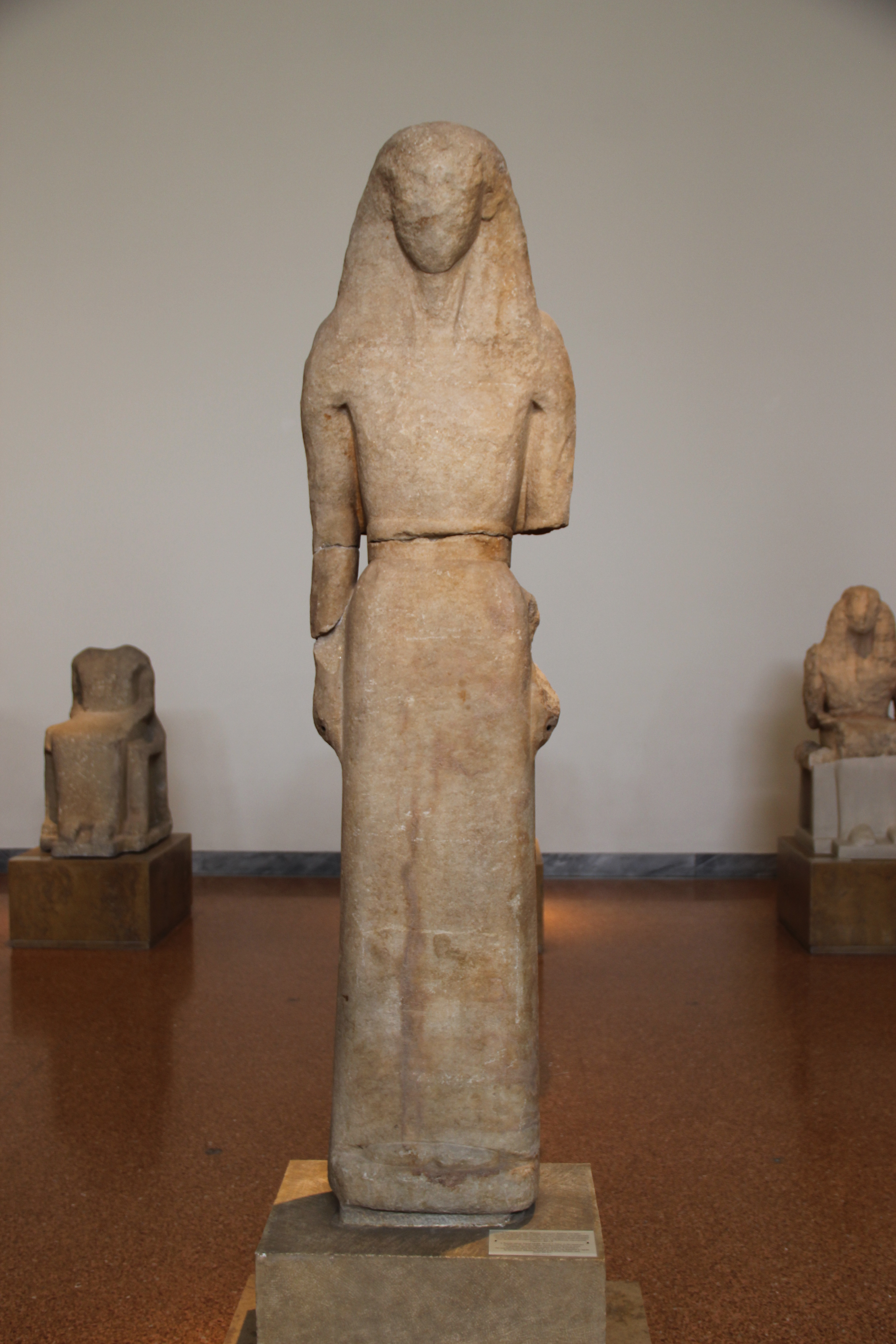 Athens Stone Sculpture Gallery, National Archaeological Museum of Greece, Athens, Greece. Complete indexed photo collection at .